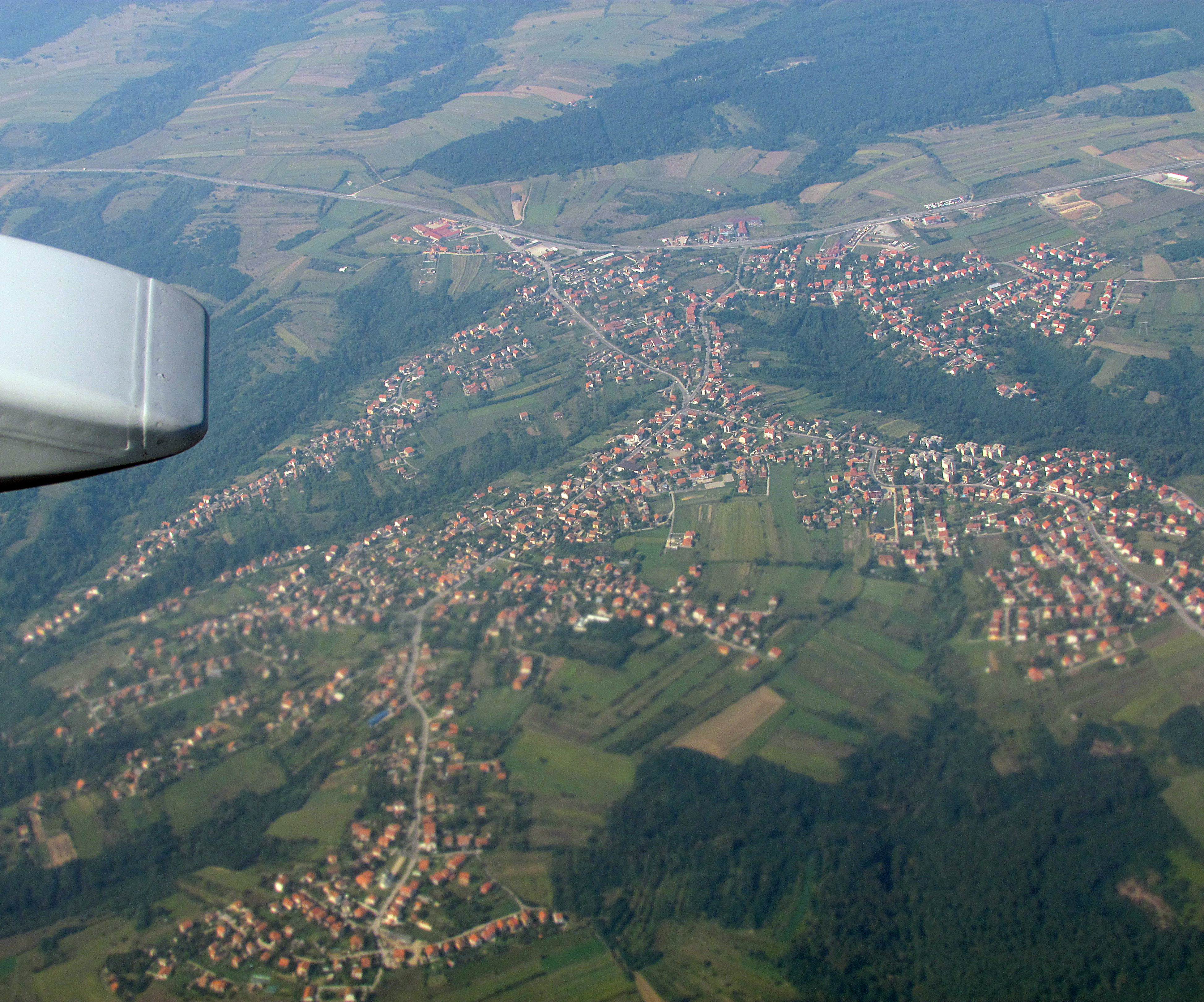 Rušanj from air, Serbia